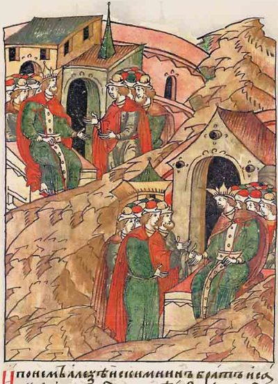 Isaac II Angelos and Alexios III Angelos